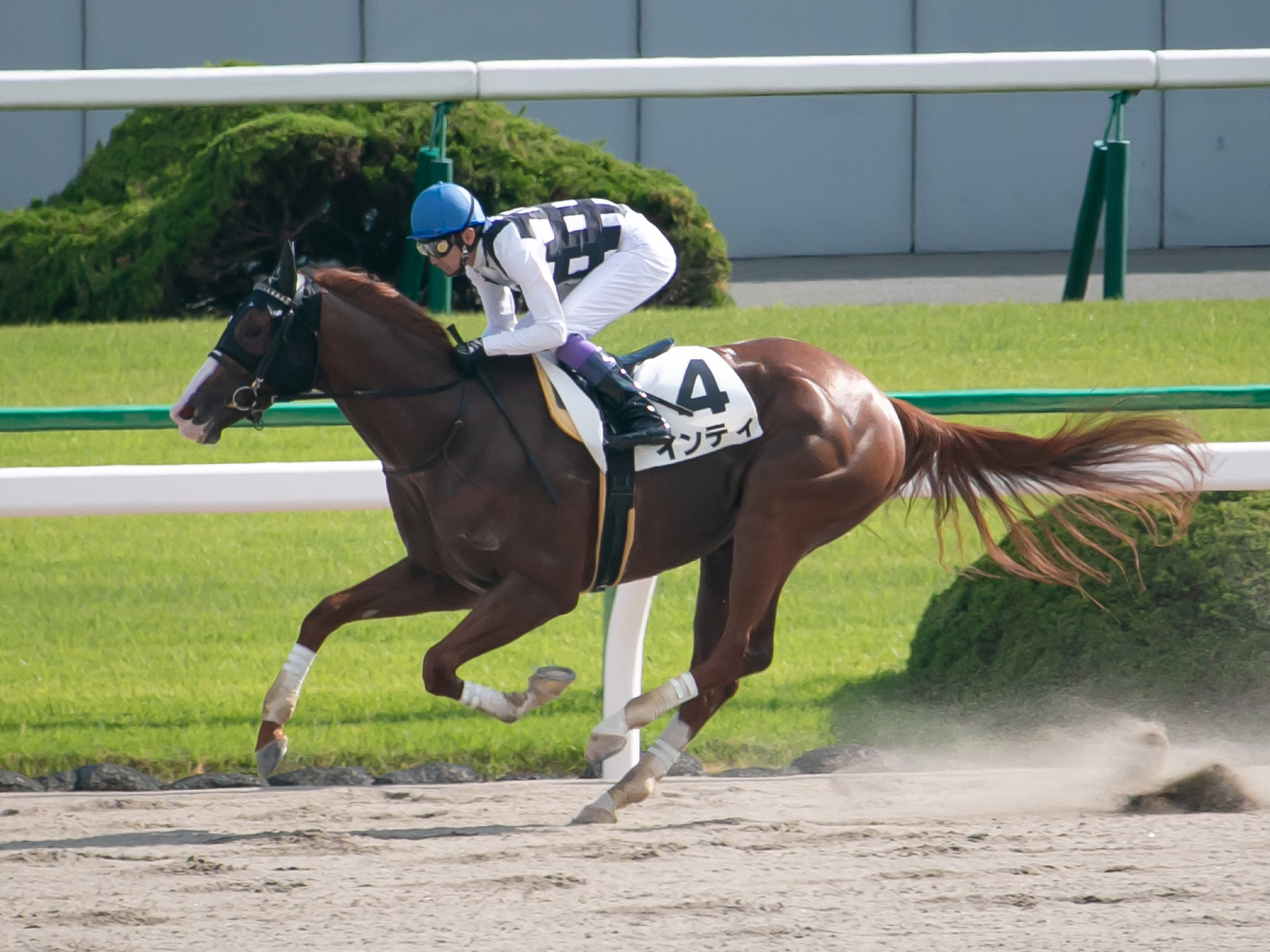 Inti(JPN), Racehorse of Japan.